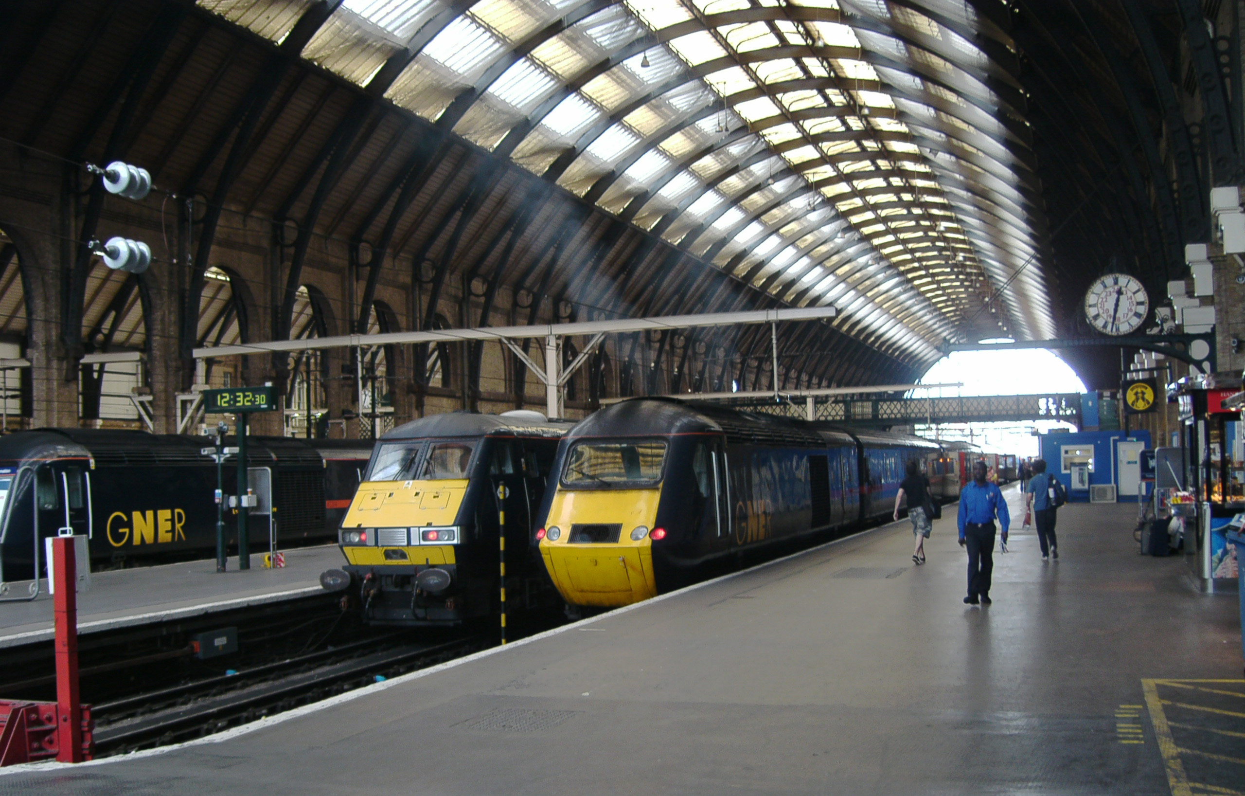 King's Cross railway station, London.